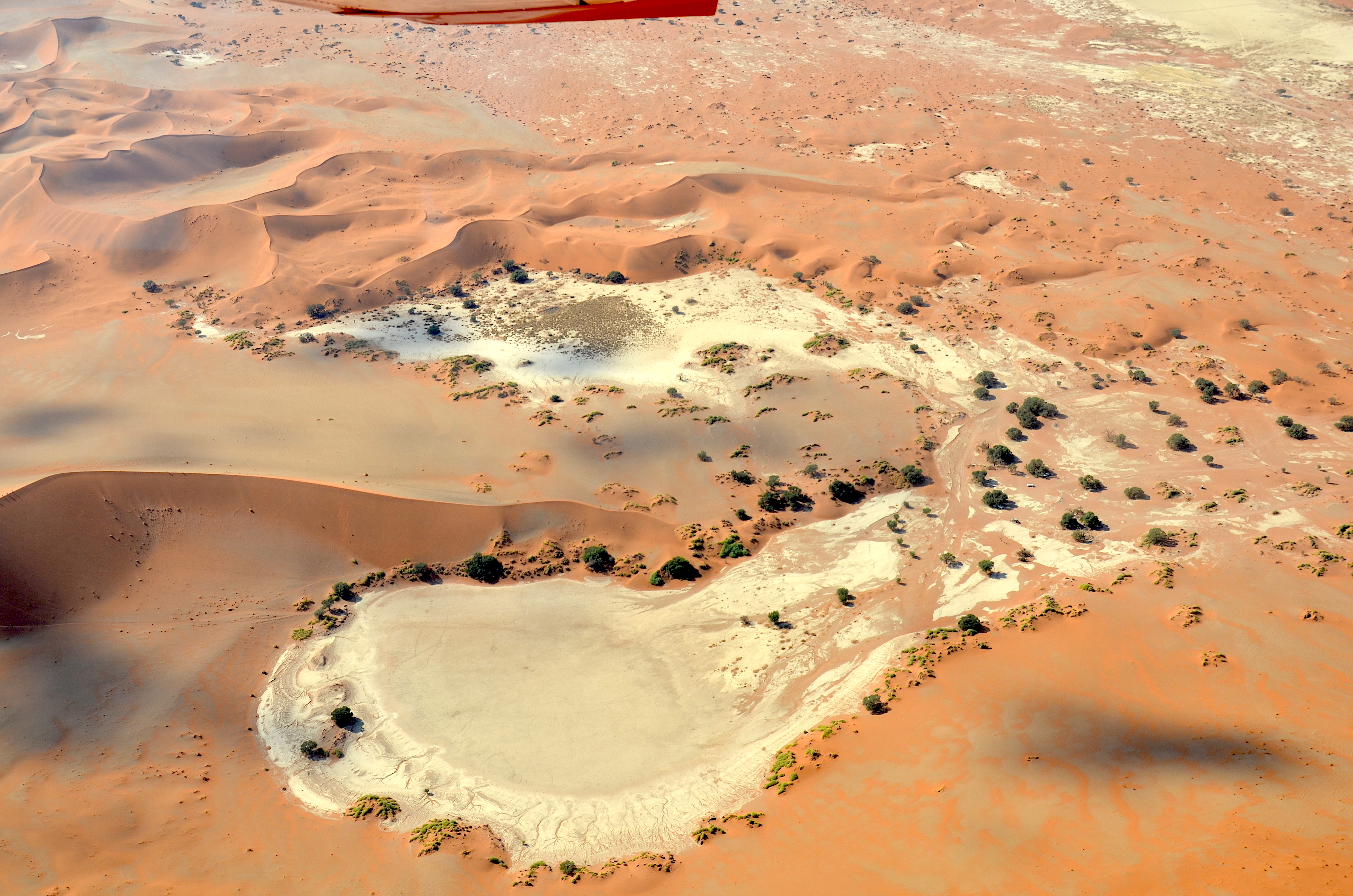 Sossusvlei from Bird´s eye view (2017)